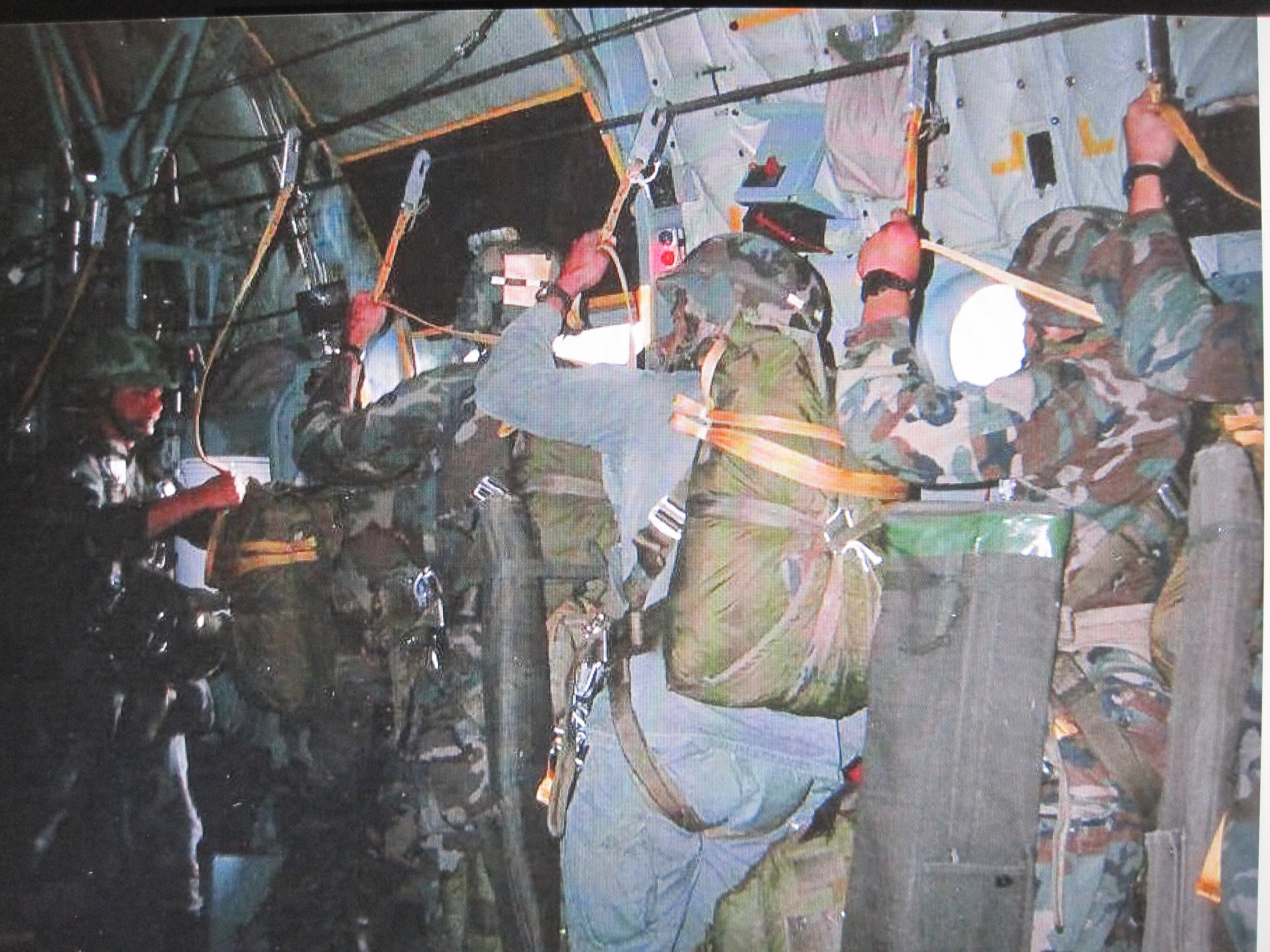 Michigan National Guard Company F, 425th Infantry exiting C-130